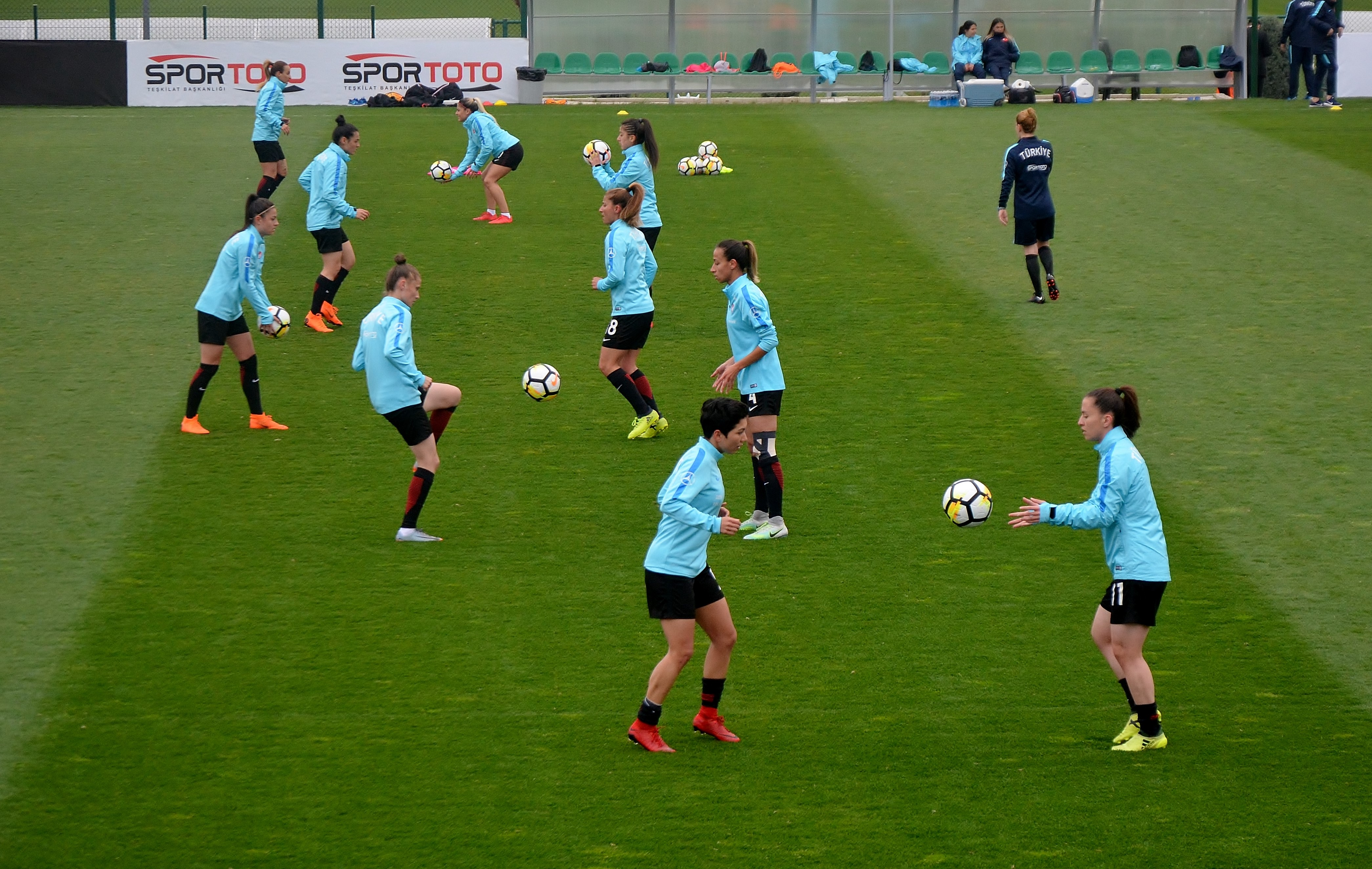 Turkey women's national team in the friendly match against Estonia at TFF Riva Facility in Beykoz, Istanbul on 7 April 2018.